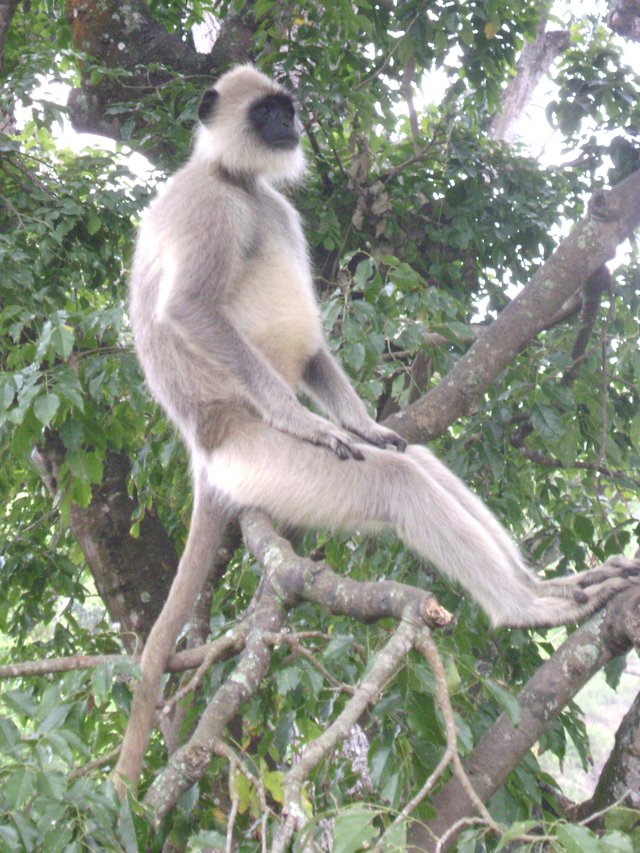 Alpha male Grey Langur at Mudumalai National Park